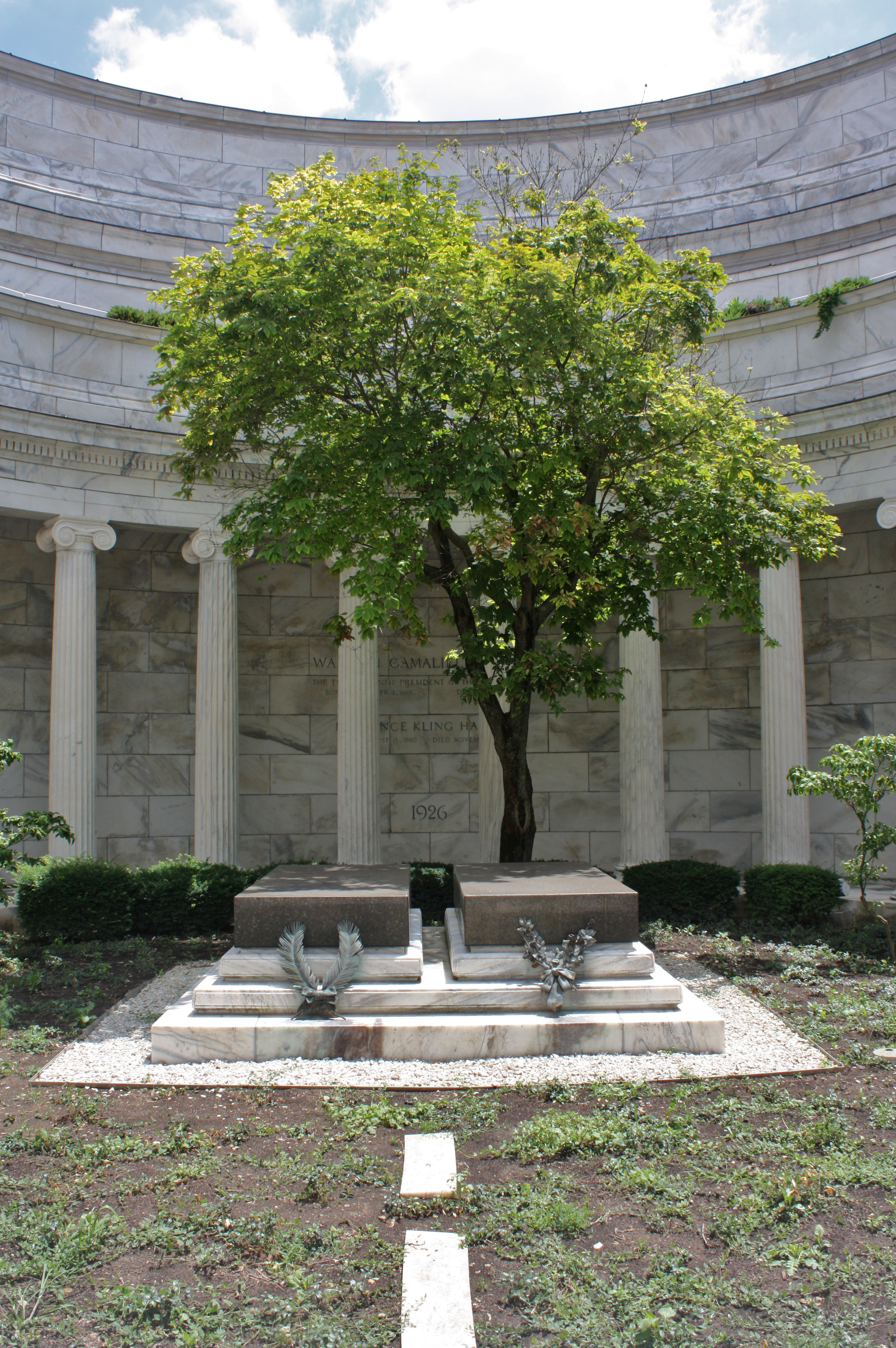 Center of Harding Tomb, Marion, Ohio; tombs of U.S. President Warren G. Harding and First Lady Florence Harding.